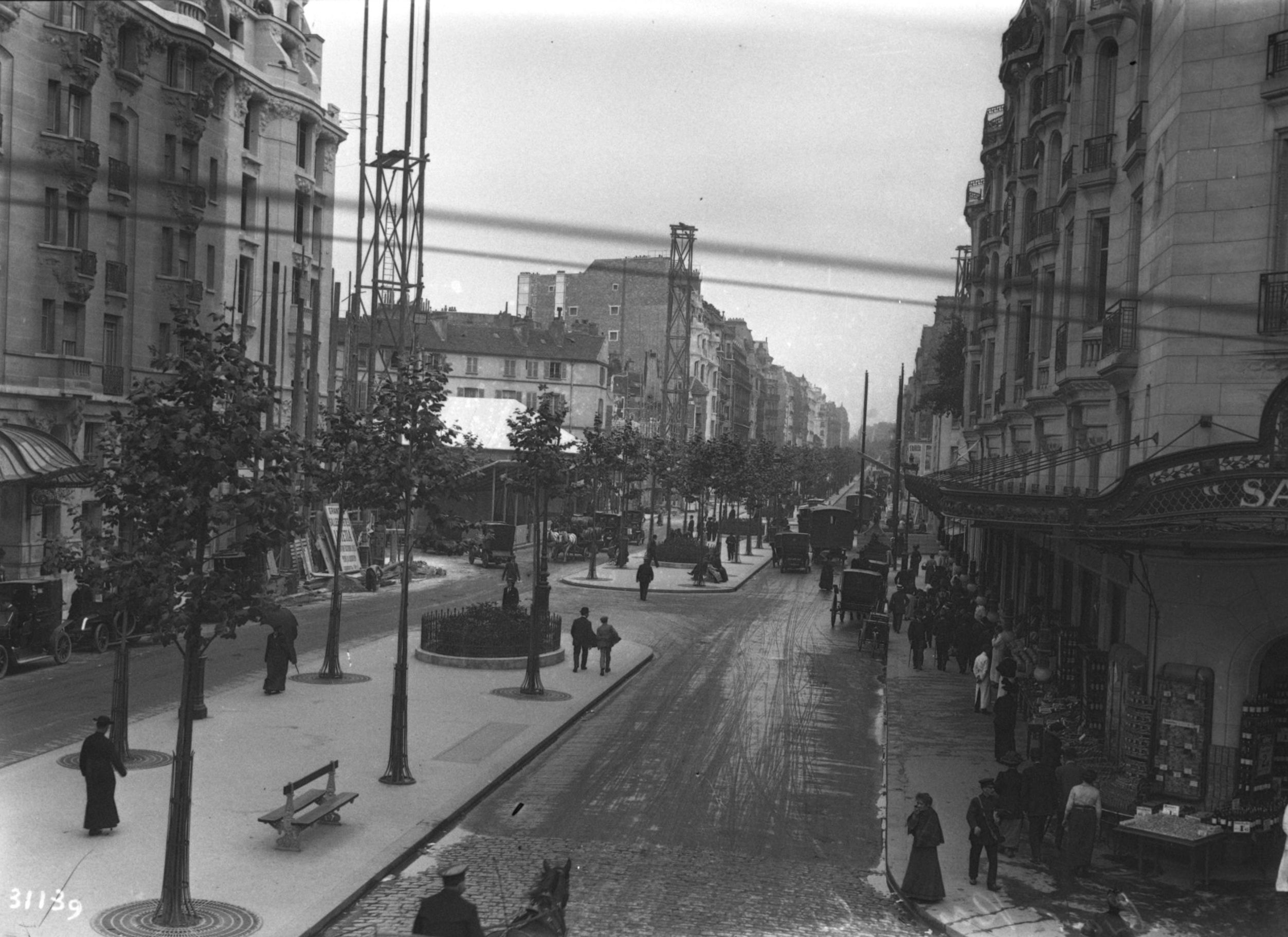 Boulevard Raspail, Paris, 1913